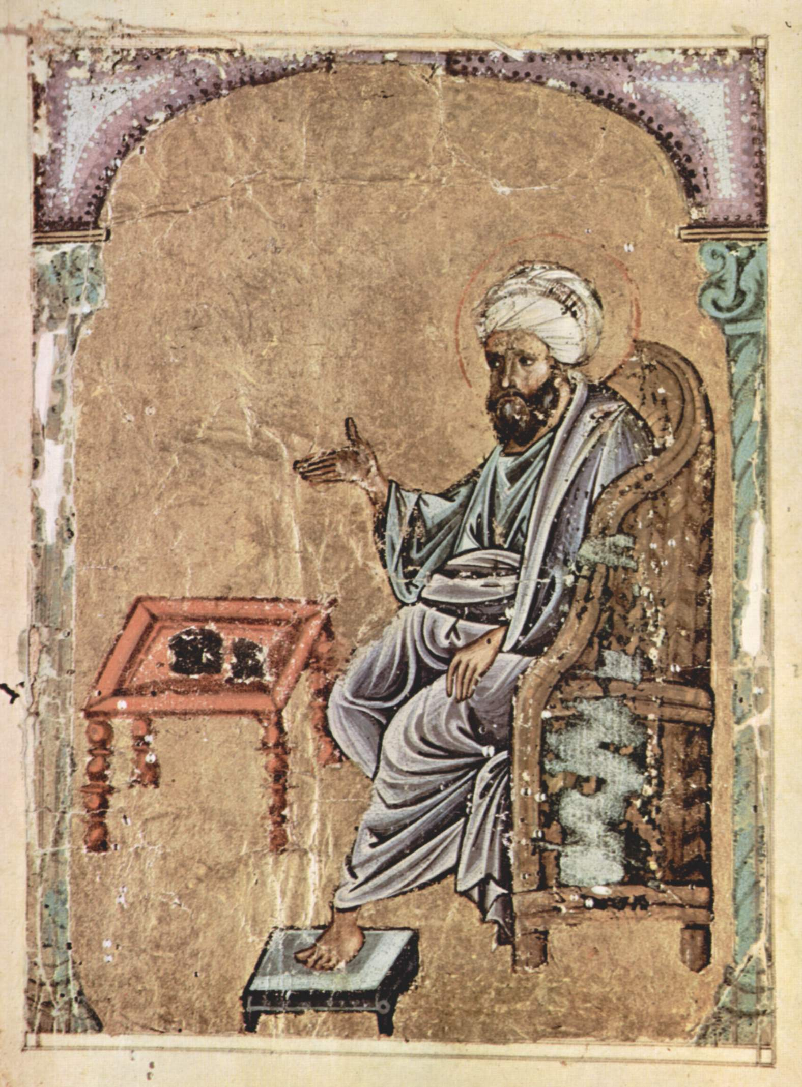 coming from north Iraq or Syria